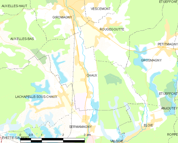 Map of French municipality Chaux